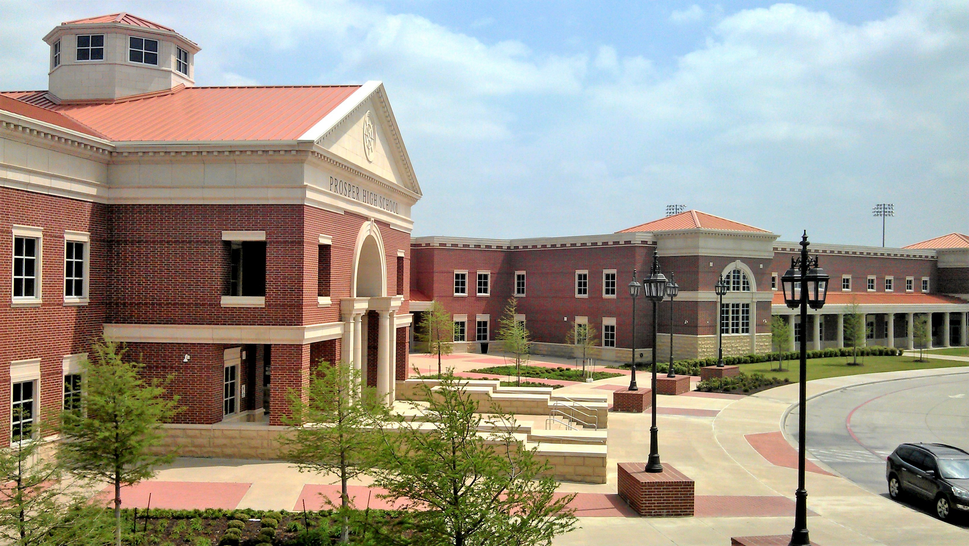 Built in 2009, this version of Prosper High School remains the most expensive high school building in the state of Texas. Prosper Independent School District is located in western Collin County, with a small portion of it extending into Denton County. In addition to the Town of Prosper, the district serves small parts of McKinney, Frisco and Celina.